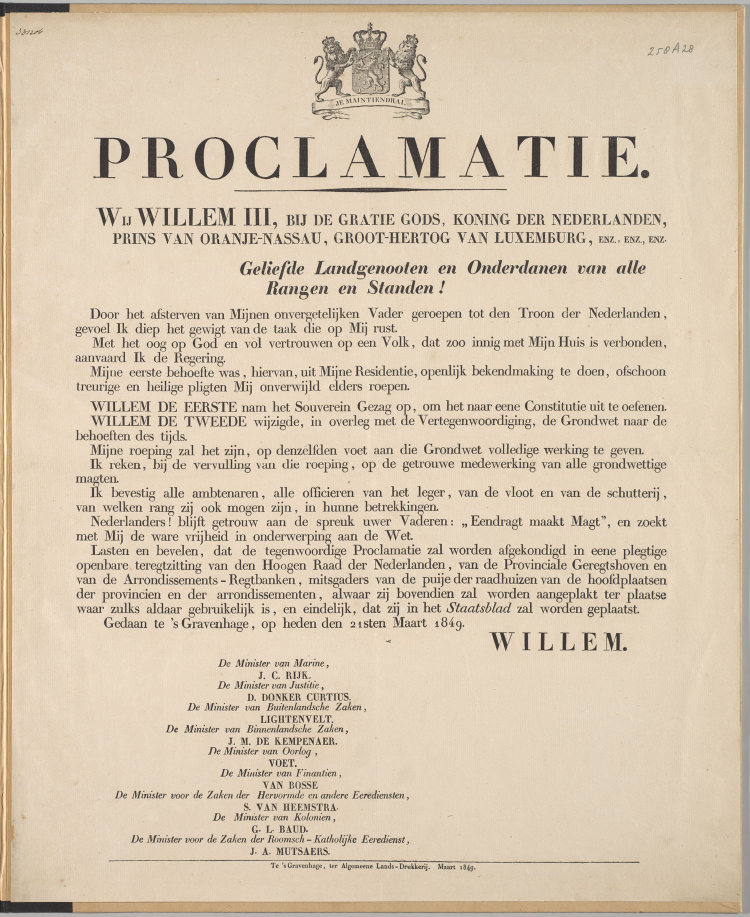 Proclamation of accession of William III, King of the Netherlands, Grand Duke of Luxembourg, Duke of Limburg